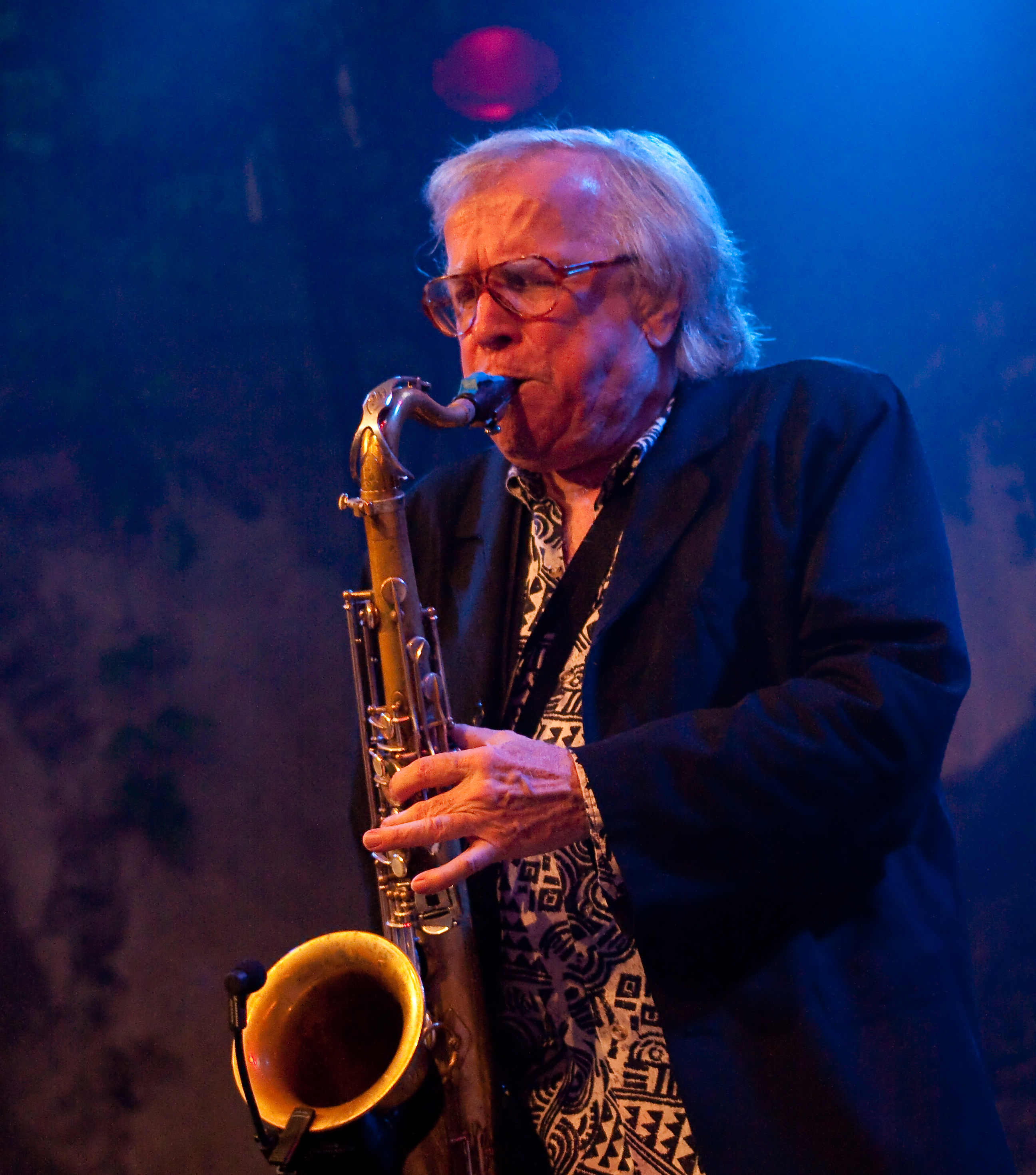 Klaus Doldinger playing saxophone on stage during a July 2005 performance